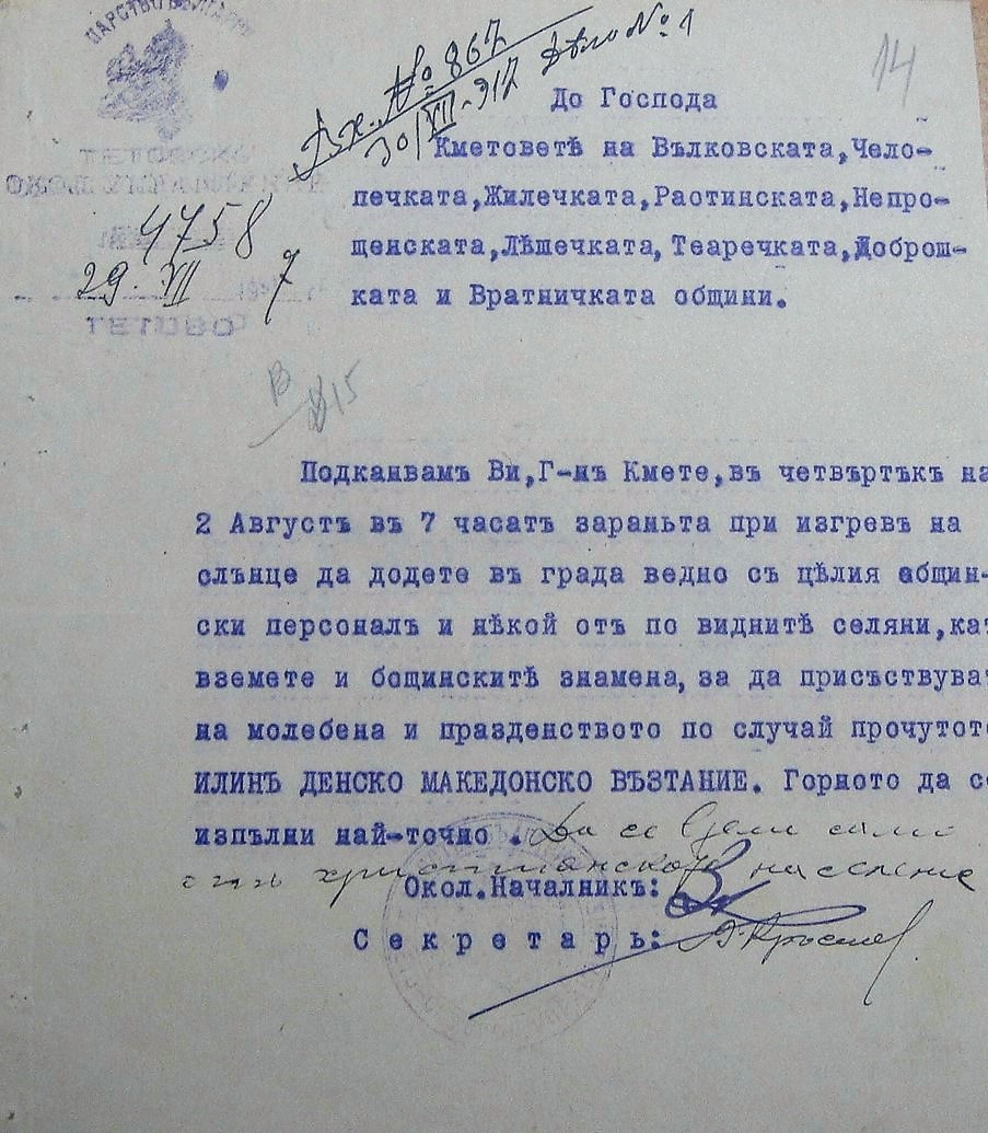 Invitation to celebrate Macedonian Ilinden uprising, which has to take place on August 2, 1917. The invitation is dated July 29, 1917. This media file is produced by Wikipedian in Residence in Category:Wikipedian in Residence at DARM in 2016.